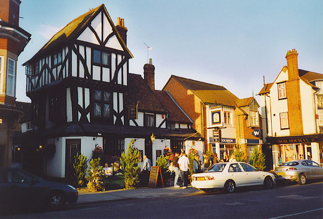 The Bird Cage Inn, 4 Cornmarket, Thame, Oxfordshire, seen from west-southwest. A 16th-century timber-framed building that has been a leper house and a prison for Napoleonic French soldiers.